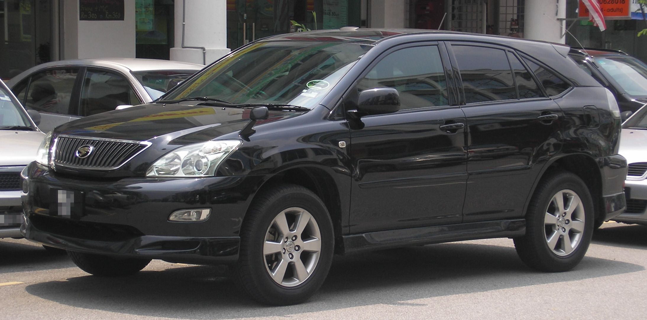 Front-side shot of an second generation Toyota Harrier, in Serdang, Selangor, Malaysia.